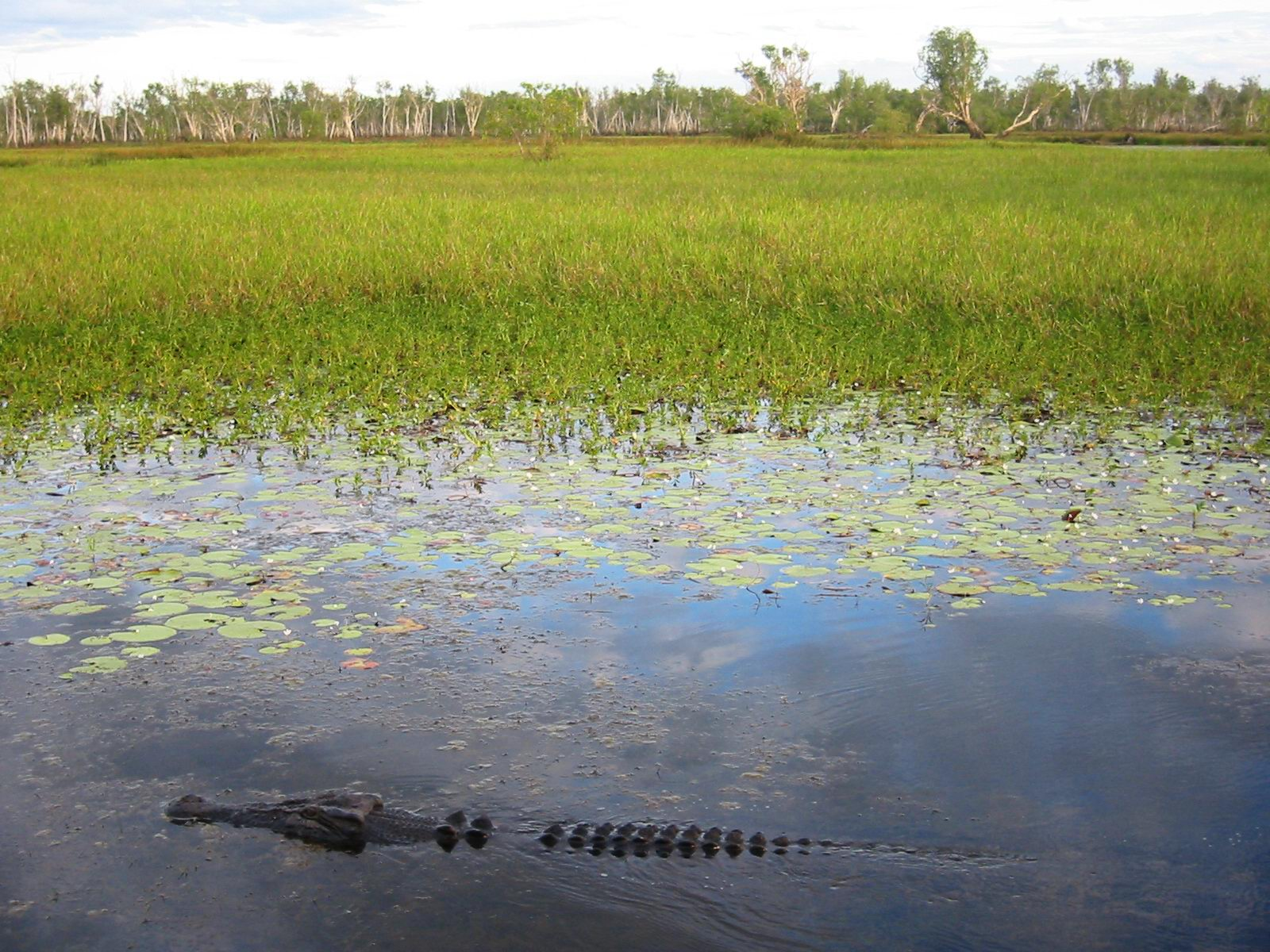 Saltwater Crocodile at Yellow Water, Kakadu National Park, Australia